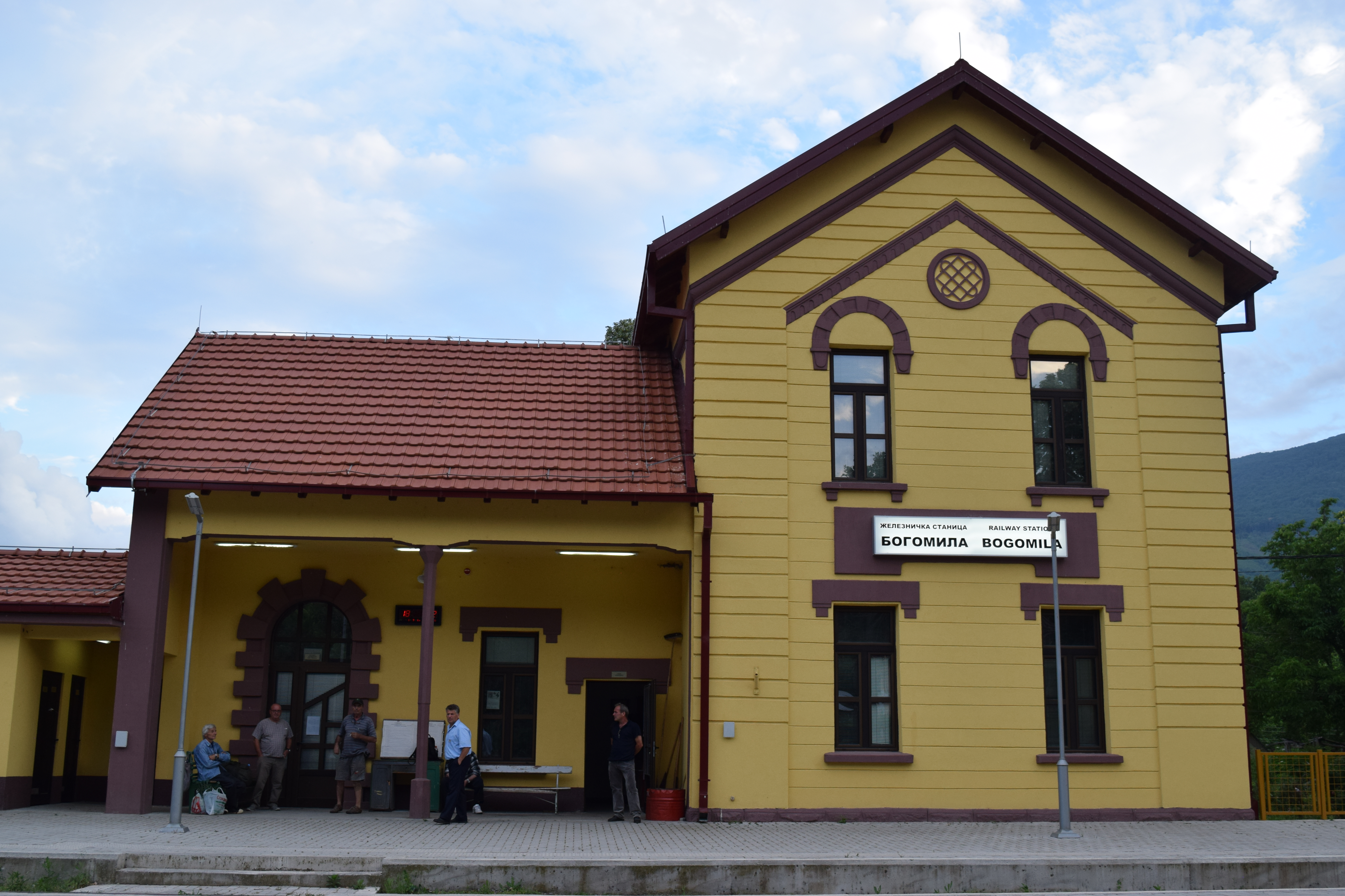 Refurbished Bogomila train station